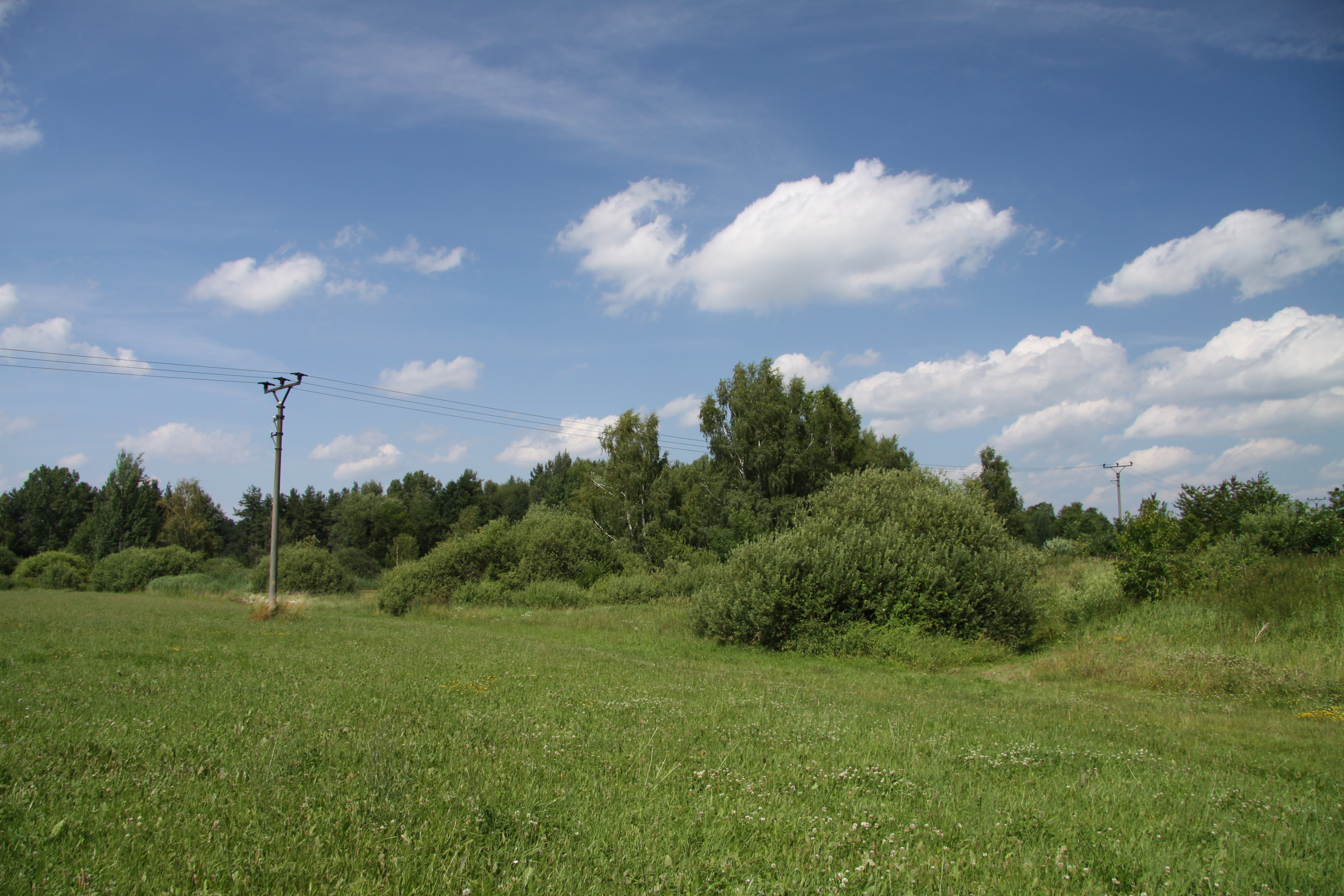 National nature reserve Velký a Malý Tisý in Jindřichův Hradec District, Czech Republic